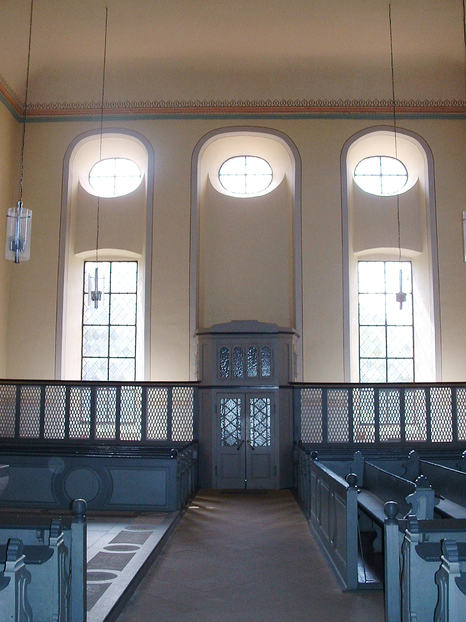 Protestant Church Kleinich